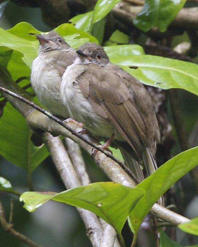 Spectacled Bulbul (Pycnonotus erythropthalmos erythropthalmos). Panti forest, Johor.